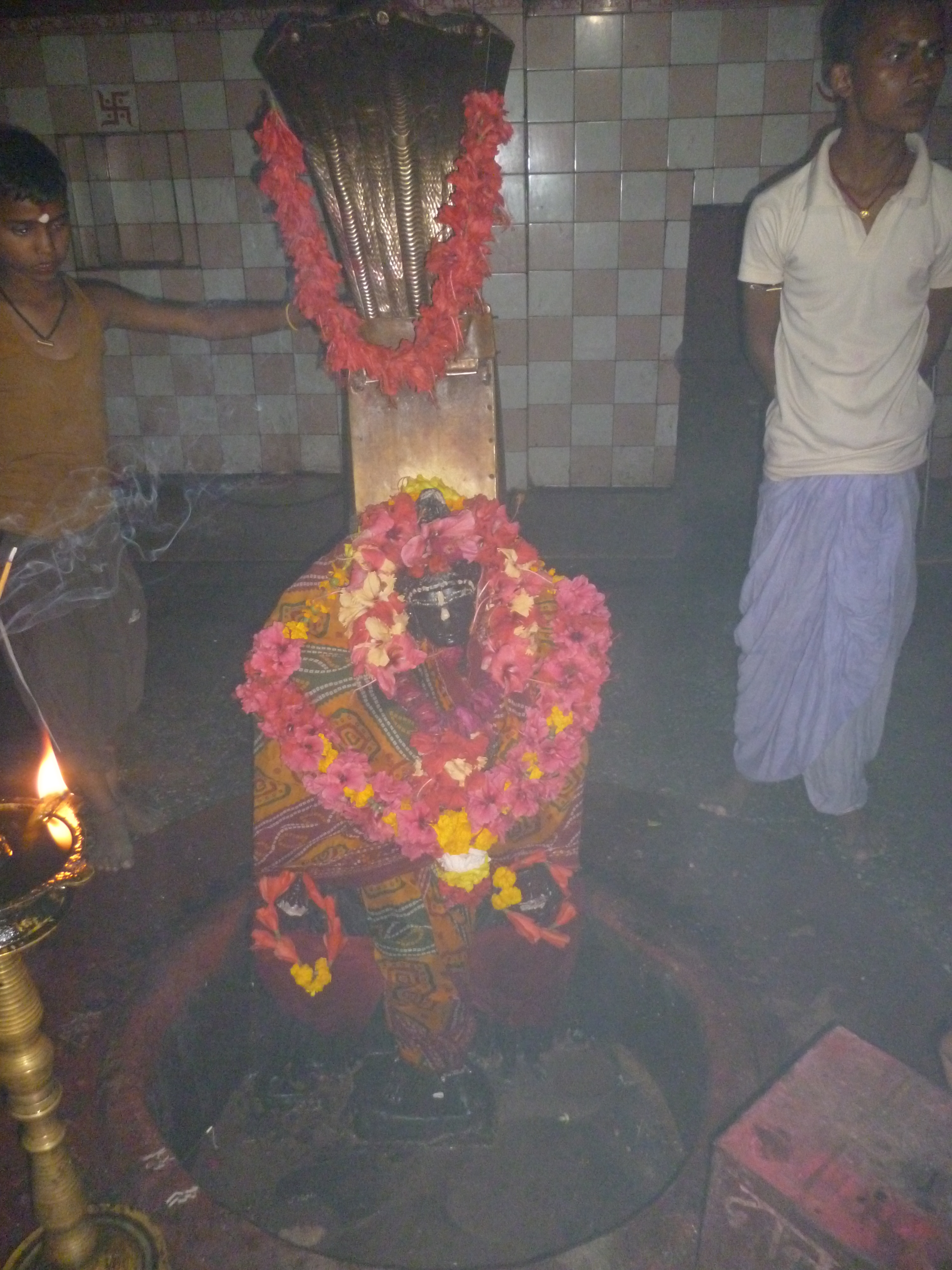 Ugratara Devi Shakti Peeth, Mahishi, Near Saharsa Town